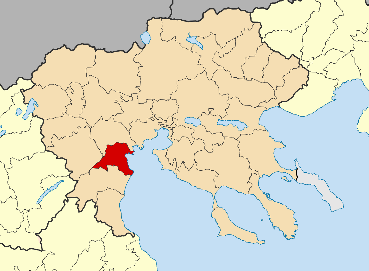 Locator map for Pydna municipality in Greek region Central Macedonia (2011)